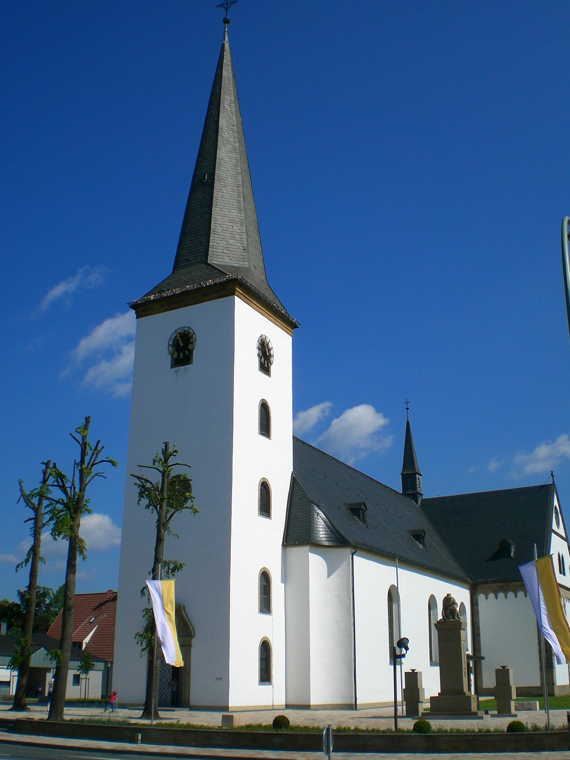 View to the St. Maria Immaculata Church in Kaunitz a district of Verl.